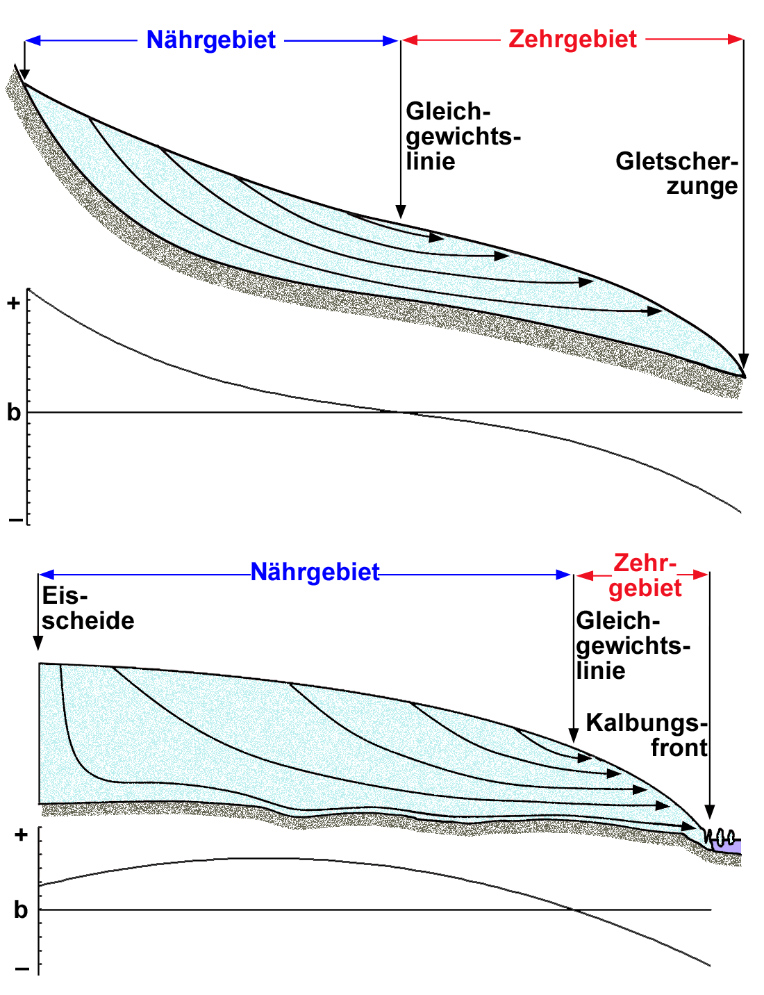 Schematic cross section an specific mass balance (b) of a typical valley glacier and an ice sheet (top), showing the relation between equilibrium line and flow lines